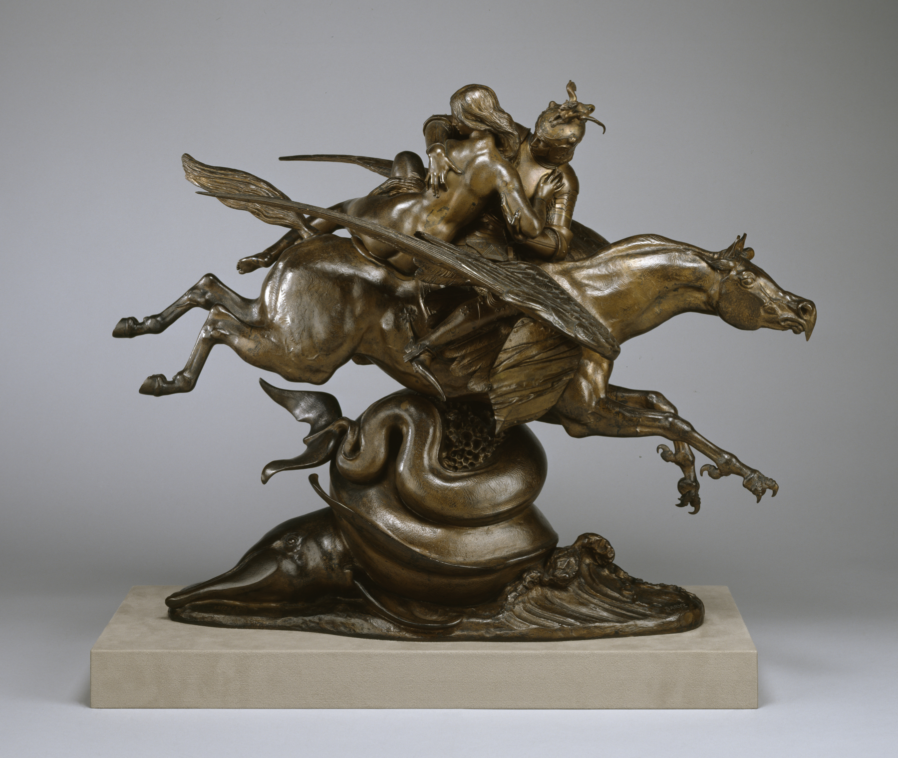 This subject is taken from Orlando Furioso, an epic poem set in the 9th century written by Ludovico Ariosto in 1516. Roger, a knight at the court of King Charlemagne, has rescued the princess of Cathay, who had been chained to a rock on the Isle of Tears and was about to be devoured by a sea monster. The knight carries her across the seas on his hippogriff, a creature part horse and part eagle. They are supported above the waves by an immense dolphin. Emerging from the sea froth is a large octopus. While in flight, Roger falls passionately in love with the princess, but when they land, she escapes from him using a magical ring while he struggles to undo his armor.